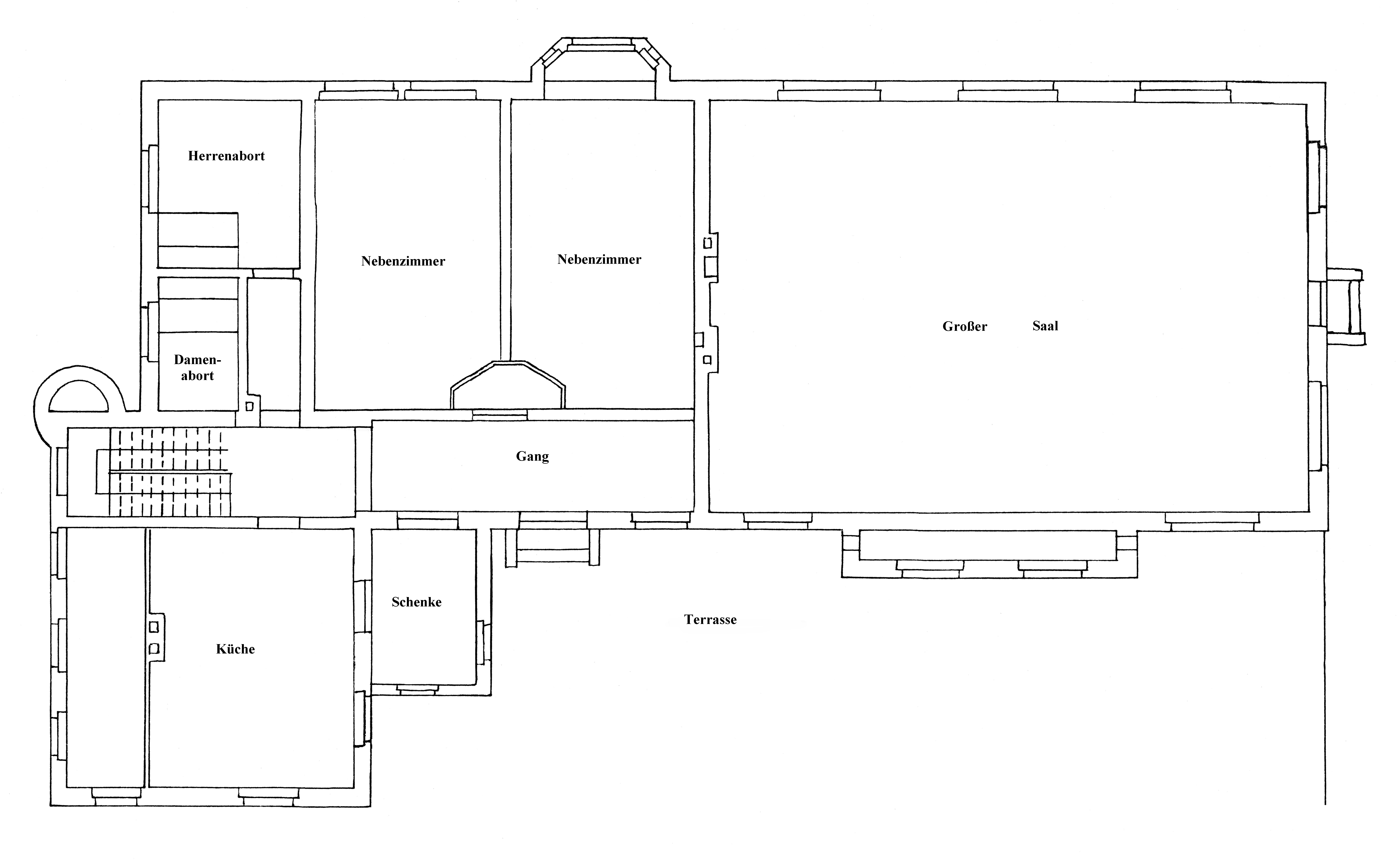 groundplan of the building